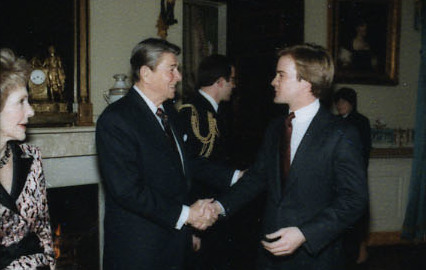 President Ronald Reagan, Nancy Reagan, Ben Blaz, Terry Bruce, Harris Fawell, Jim Saxton, D. French Slaughter, and Bill Schuette